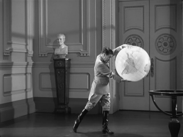 Charlie Chaplin from the film The Great Dictator